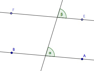 German language course for absolut beginners (with audio)